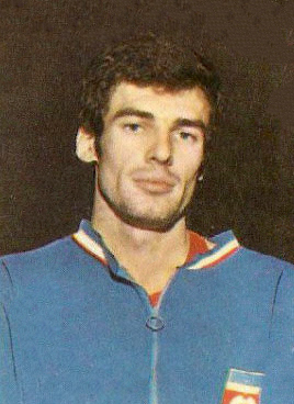 CAMPIONI DELLO SPORT PANINI 1970 1971 KRESIMIR COSIC PALLACANESTRO